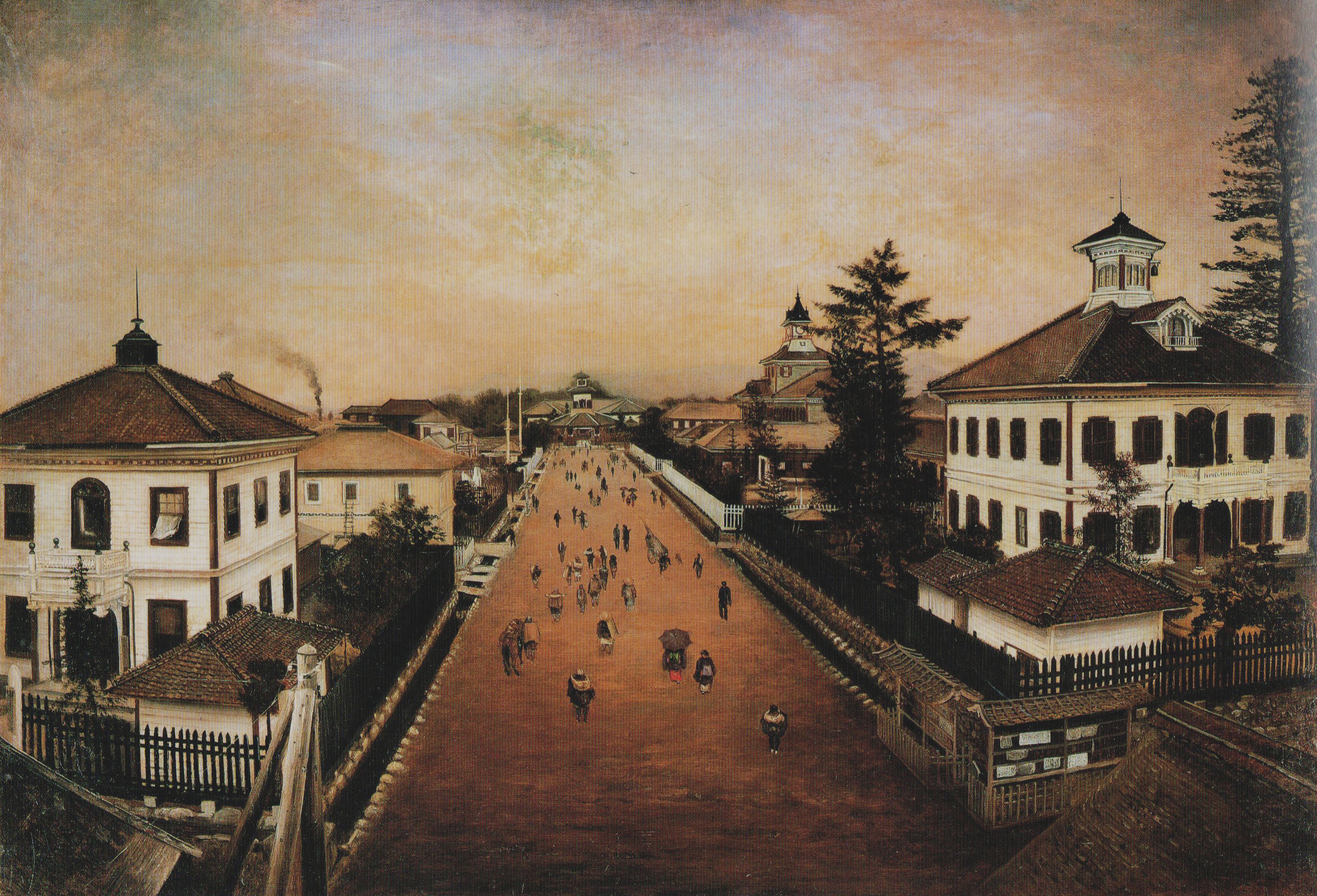 Views of the center of Yamagata City in Yamagata Prefecture, Japan in 1881. This is an oil painting called "Yamagata City Map" by Takahashi Yuichi.